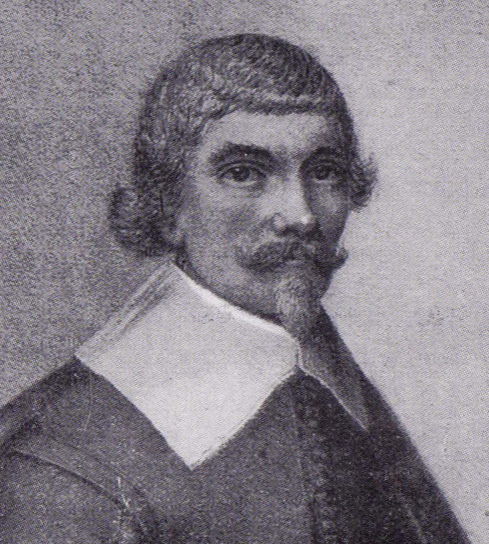 Painting of Robert Junius, 17th century missionary to Formosa (Taiwan).